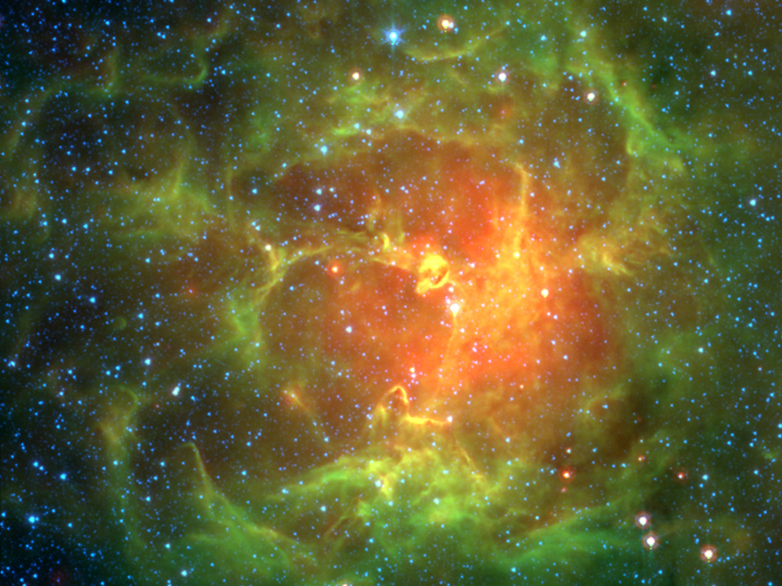 The Trifid Nebula, aka M20, is easy to find with a small telescope and a well-known stop in the nebula rich constellation Sagittarius. But where visible light pictures show the nebula divided into three parts by dark, obscuring dust lanes, this penetrating infrared image reveals filaments of luminous gas and newborn stars. This spectacular false-color view is courtesy of the Spitzer Space Telescope. Astronomers have used the Spitzer infrared image data to count newborn and embryonic stars that otherwise lie hidden in the natal dust and glowing clouds of this intriguing stellar nursery.